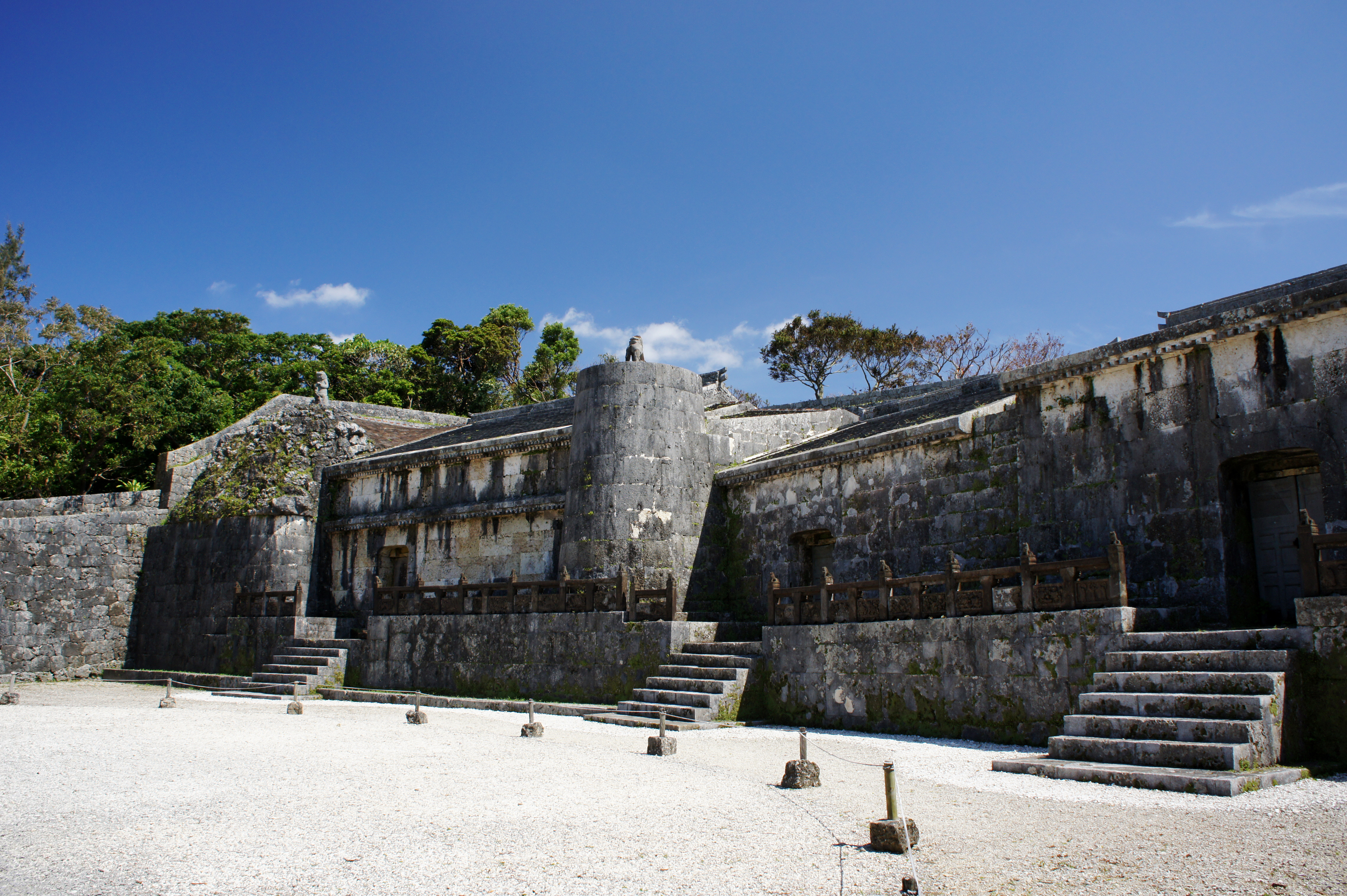 Tamaudun in Naha, Okinawa prefecture, Japan. Tamaudun was registered as part of the UNESCO World Heritage Site "Gusuku Sites and Related Properties of the Kingdom of Ryukyu".